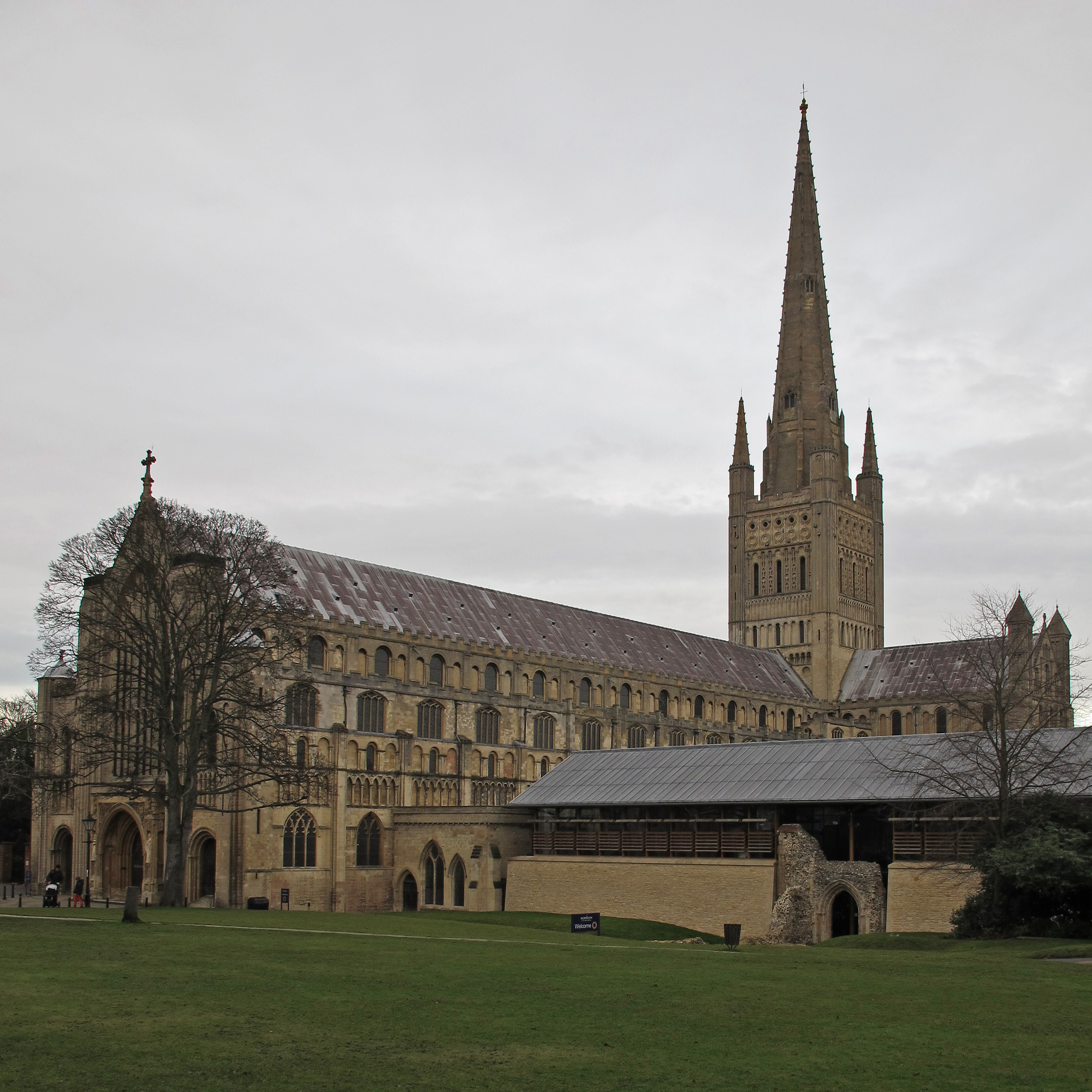 Norwich Cathedral